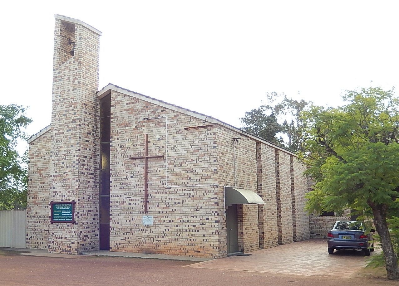 Built in 1963 replacing the older church in Toodyay which had the same name